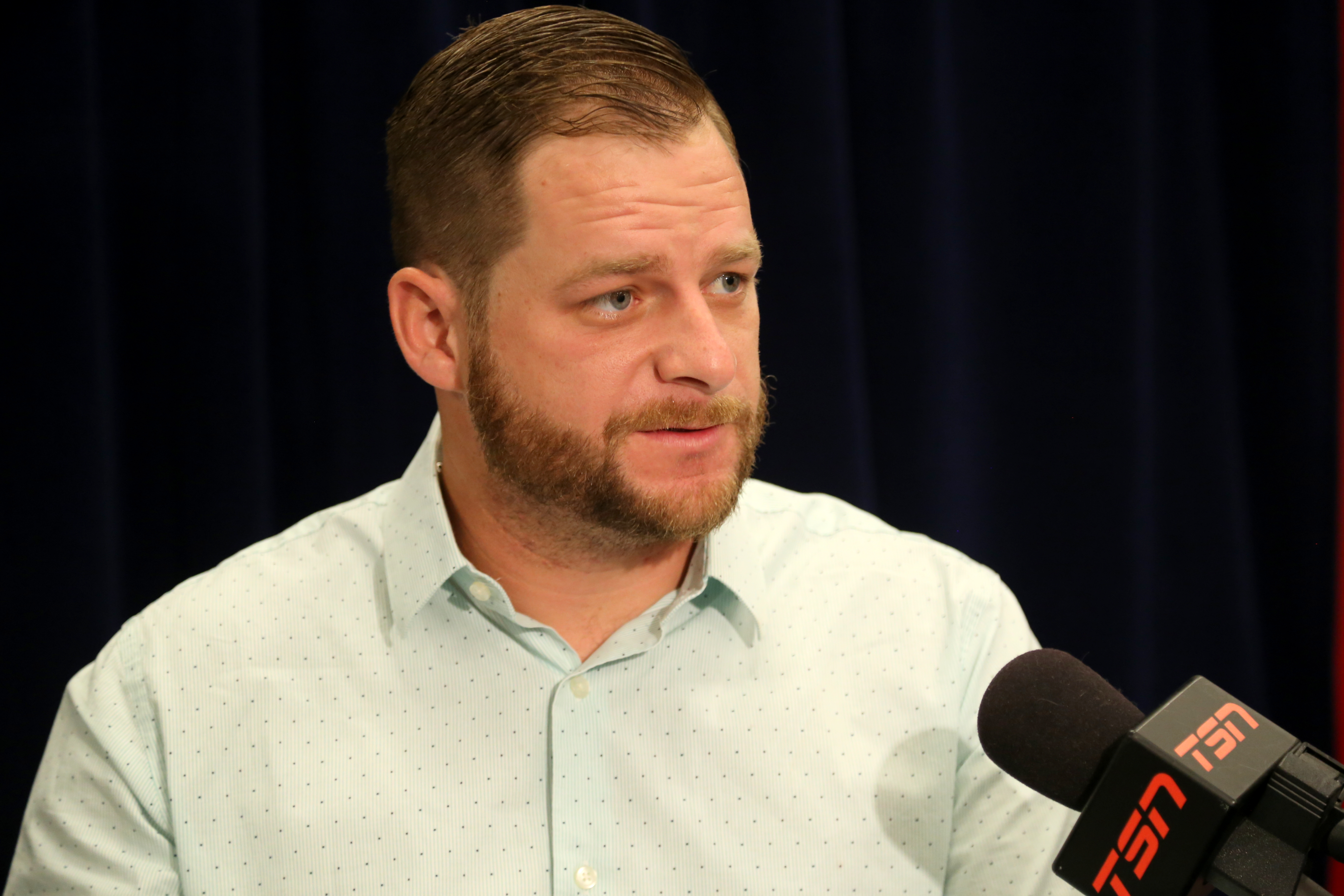 Athletics catcher Stephen Vogt talks to reporters at 2016 All-Star Game availability.